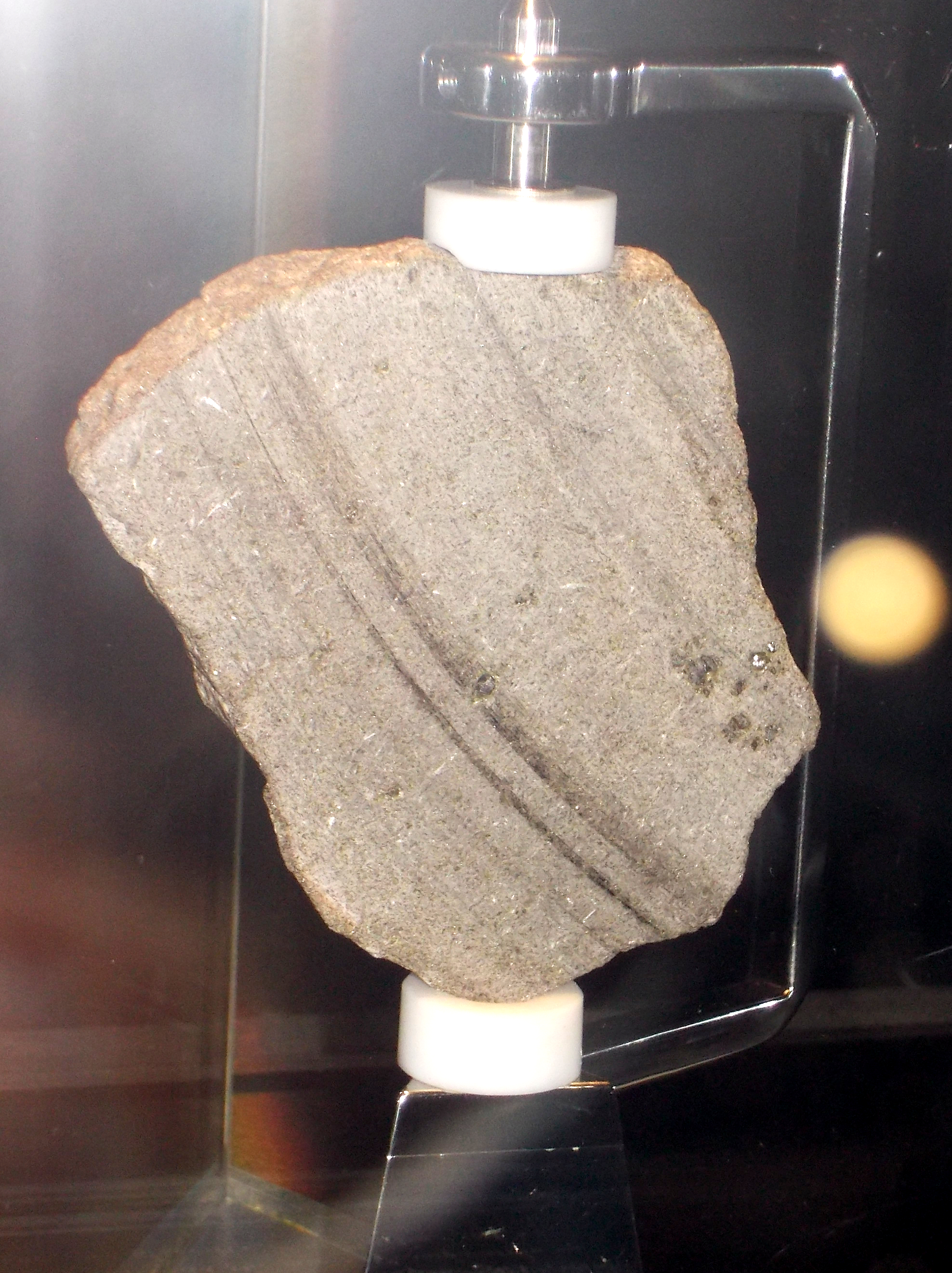 Rock sample collected at Apollo 12 mission, cut face